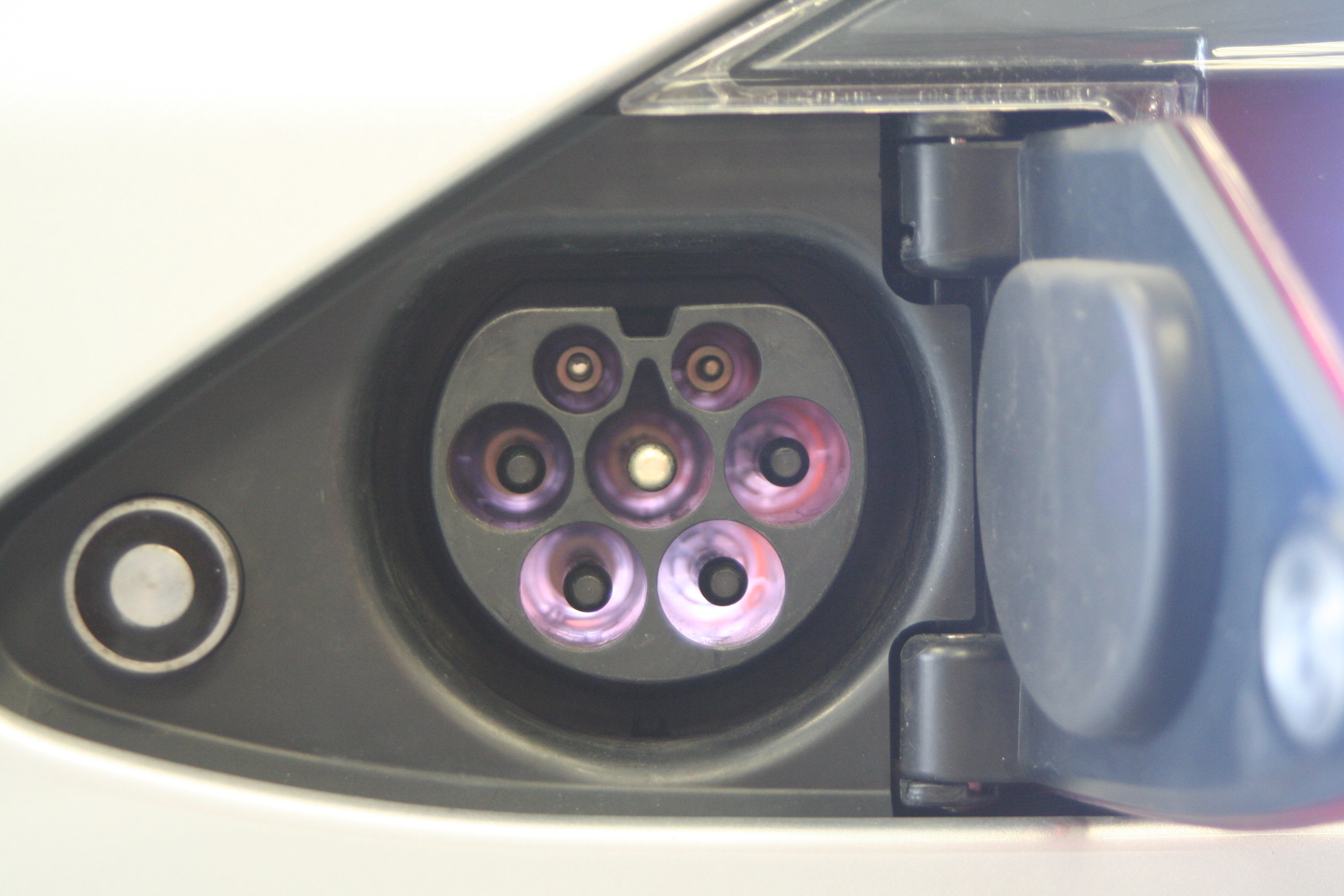 European Tesla Model S Type 2 connector charge port. With connector lights lit up. Photographed at Frankfurt Tesla showroom.